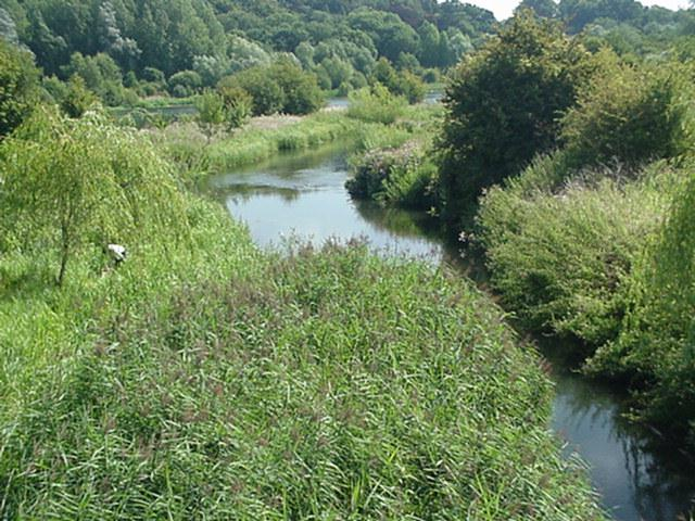 River Lee at Amwell View from footbridge over River Lee that leads to Amwell Quarry. Hollcross lake (water-filled gravel workings) can be seen to the left of the river, beyond the wide margins of wetland vegetation.